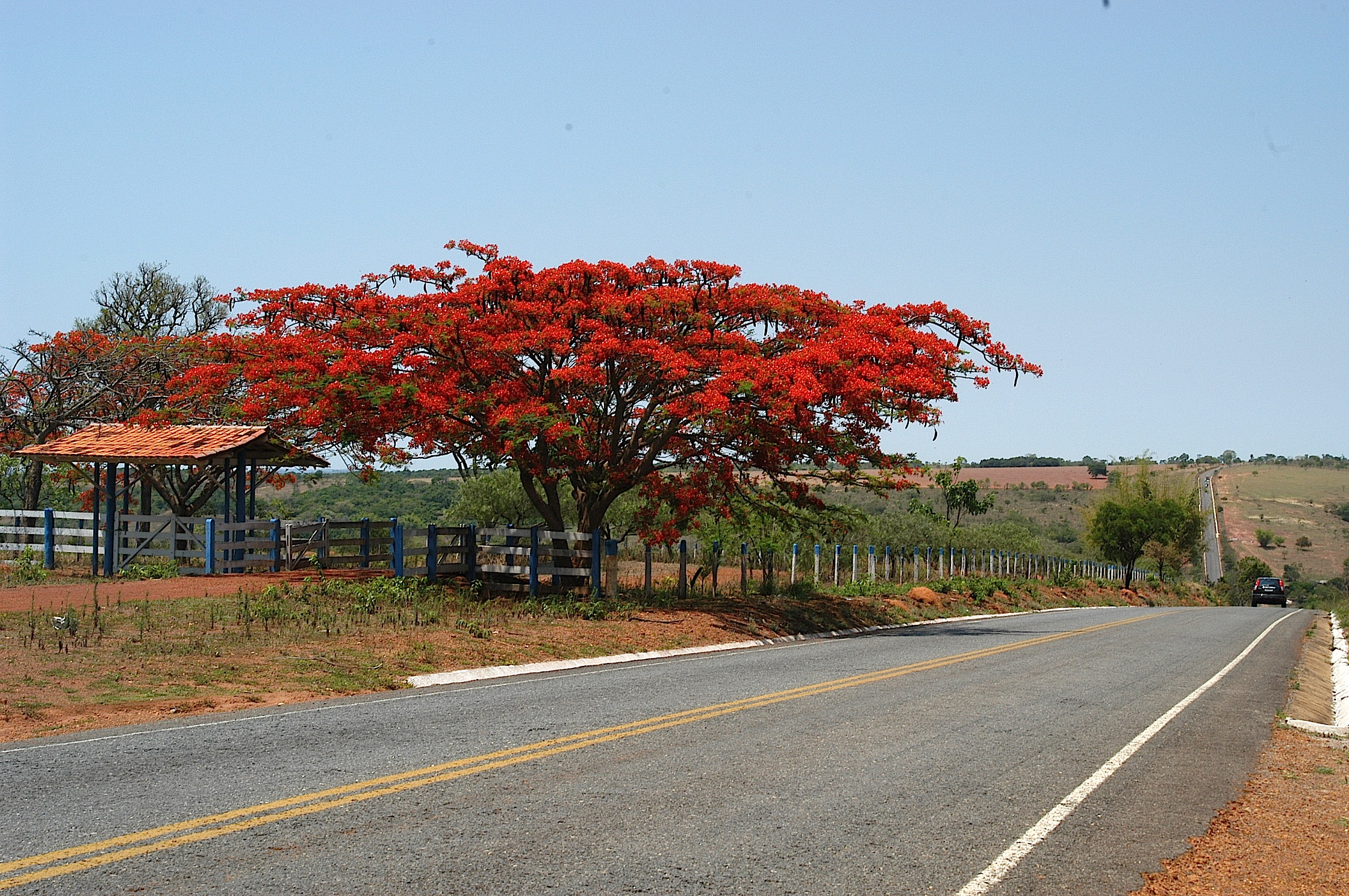 beatiful tree on the road side in Goias, Brazil